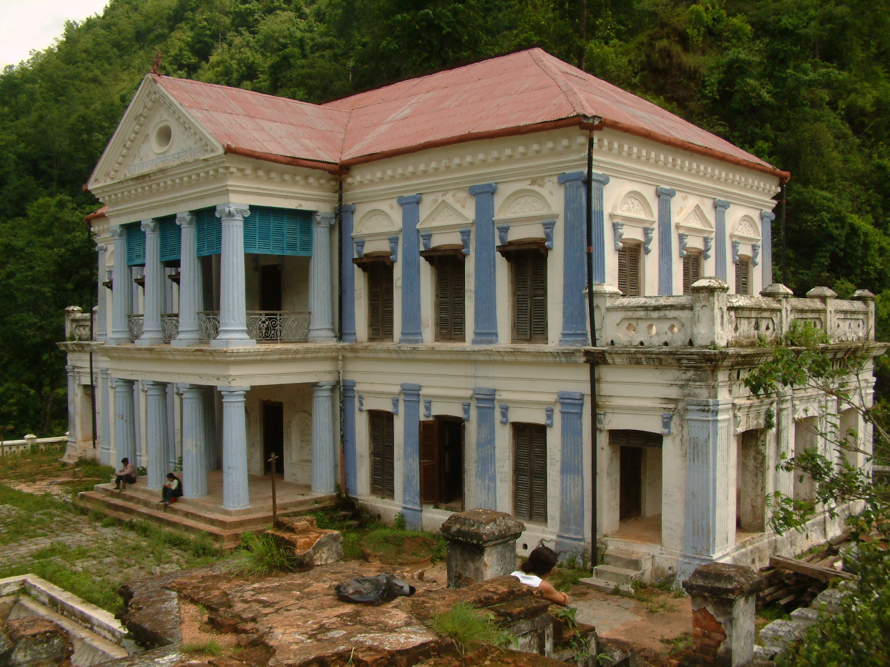 Rani Mahal